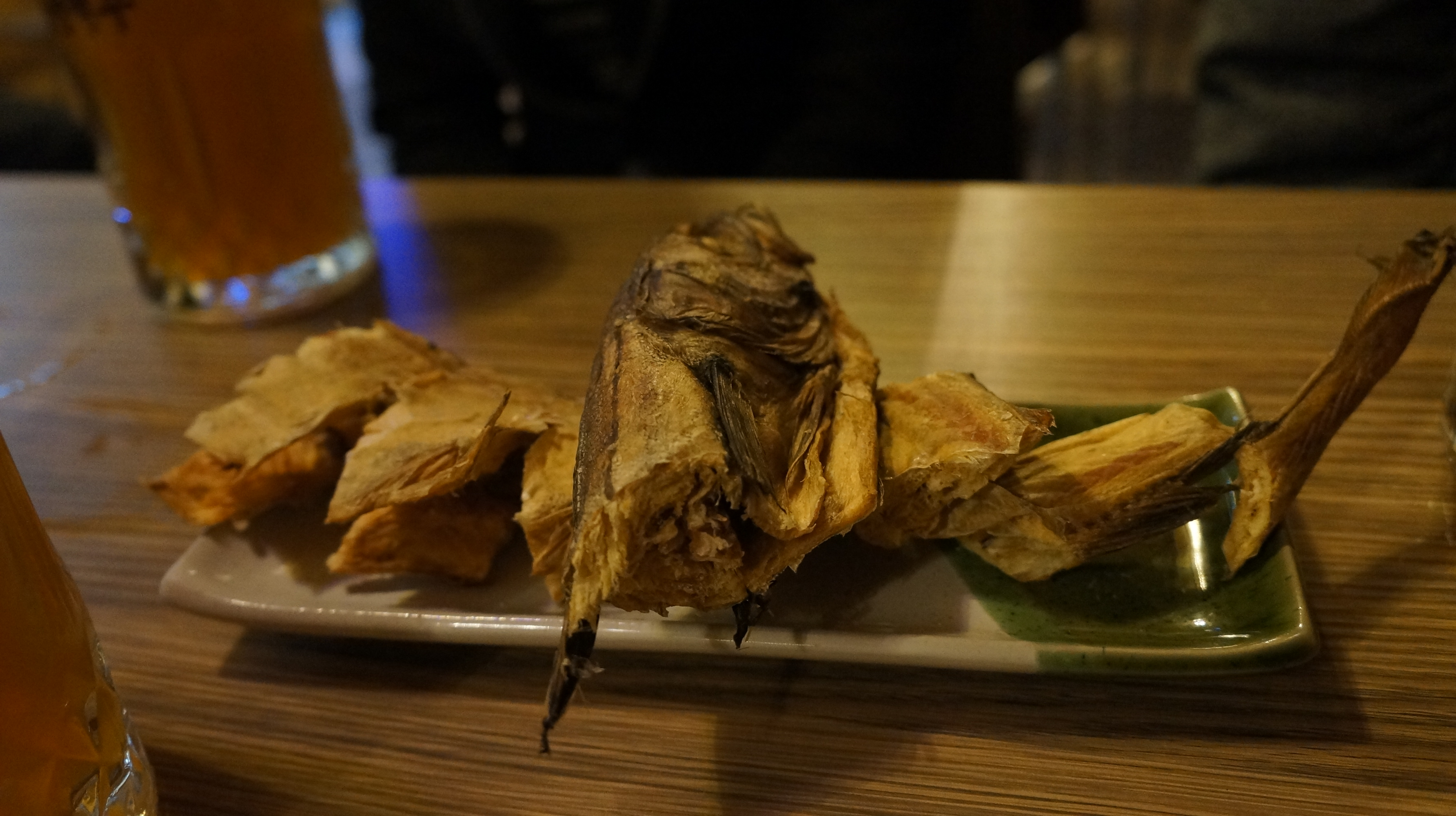 Dried pollack is a very typical beer snack in North Korea. It's traditionally caught and dried during the winters and eaten throughout the year. The insides are stripped in pieces and enjoyed. The eyes are delicacies. And the skin is lightly charred using a cigarette lighter for effect. A new microbrewing culture has taken Pyongyang on by storm. Find out more on how to taste North Korean beer on our DPRK Beer Tour